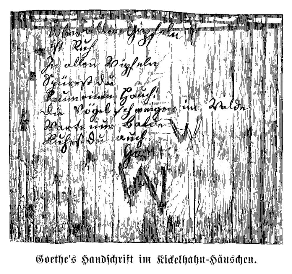 caption: "Goethe’s Handschrift im Kickelhahn-Häuschen."